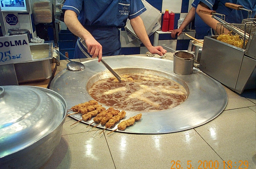 Sahne sokak, Beyoğlu, Istanbul